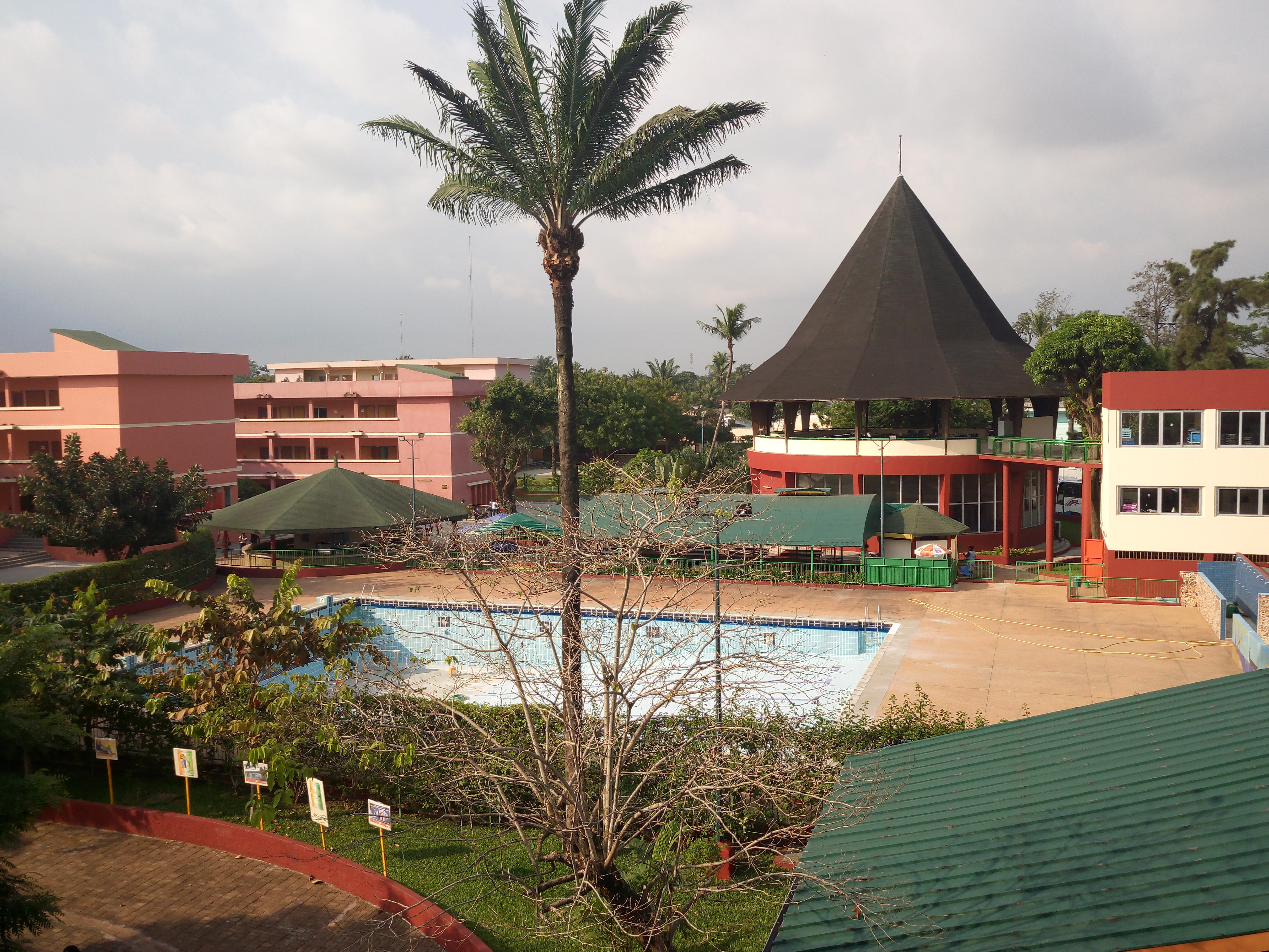 Vue intérieure du lycée Mermoz : piscine, gymnase et cantine